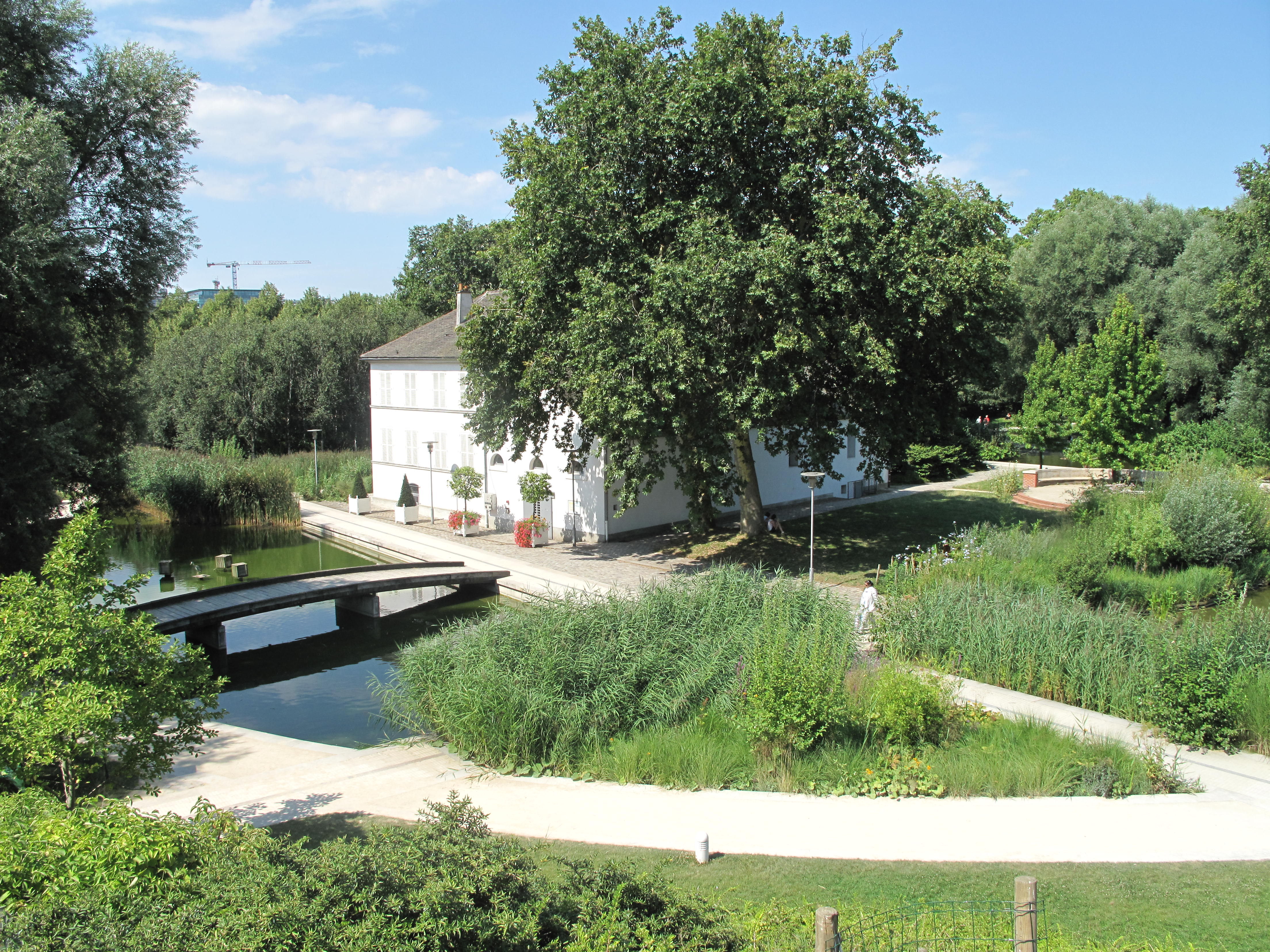 The house of the lake in the parc de Bercy, Paris 12th arrond.